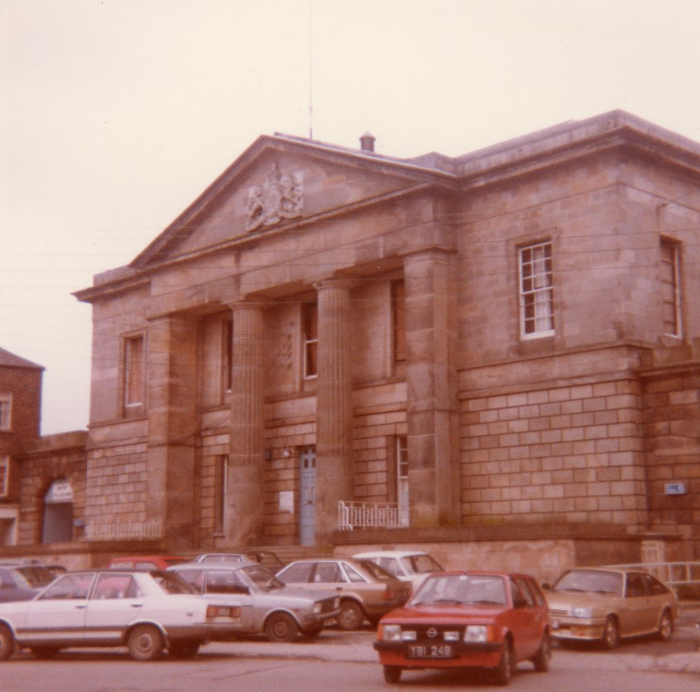 County Courthouse, Monaghan, Ireland